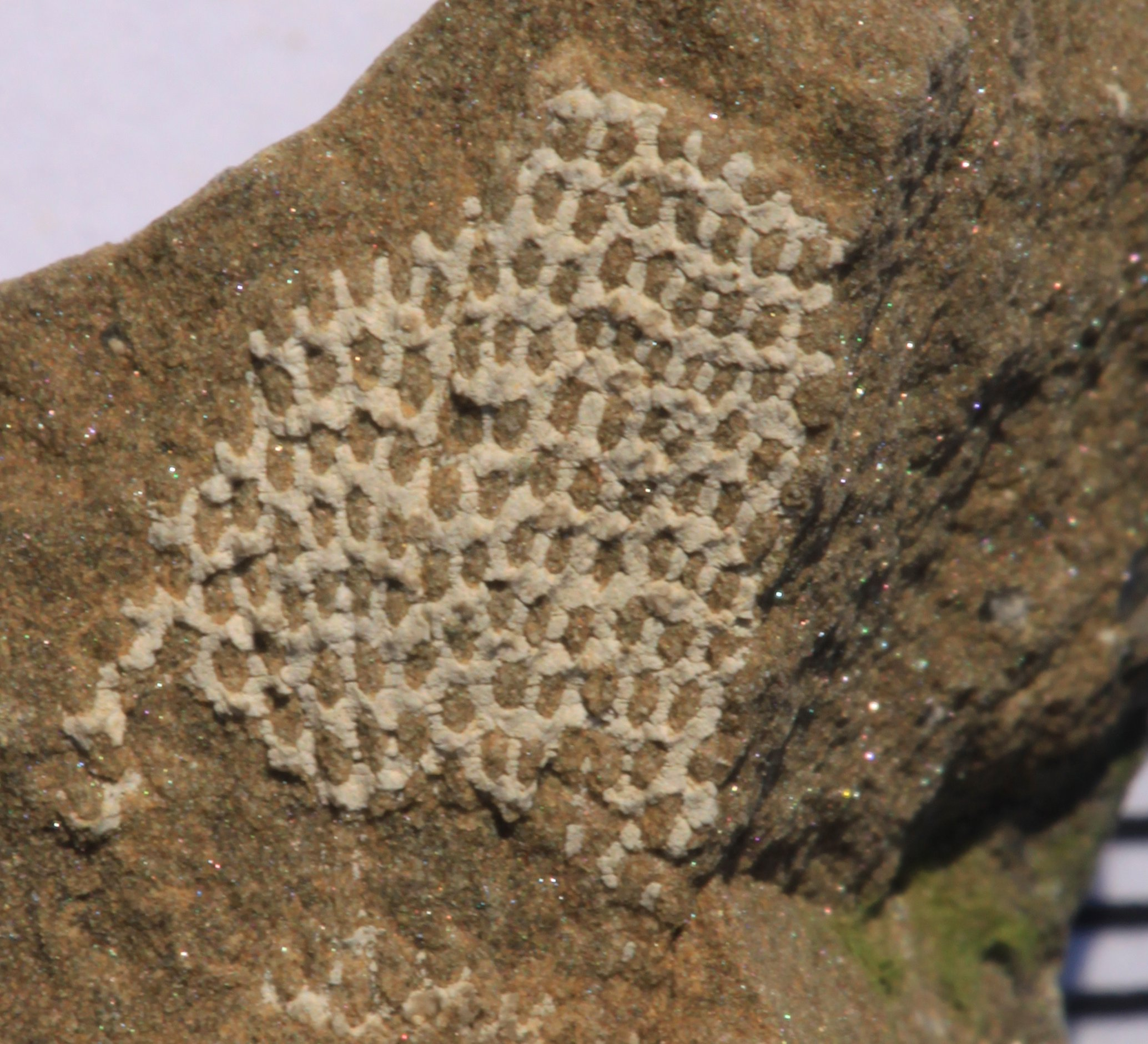 Indetermined fossil Bryozoan of the Fenestellidae family found in an abandoned limestone quarry near the town of Couvin, Namur Province, Belgium, early Upper Devonian (Frasnian)